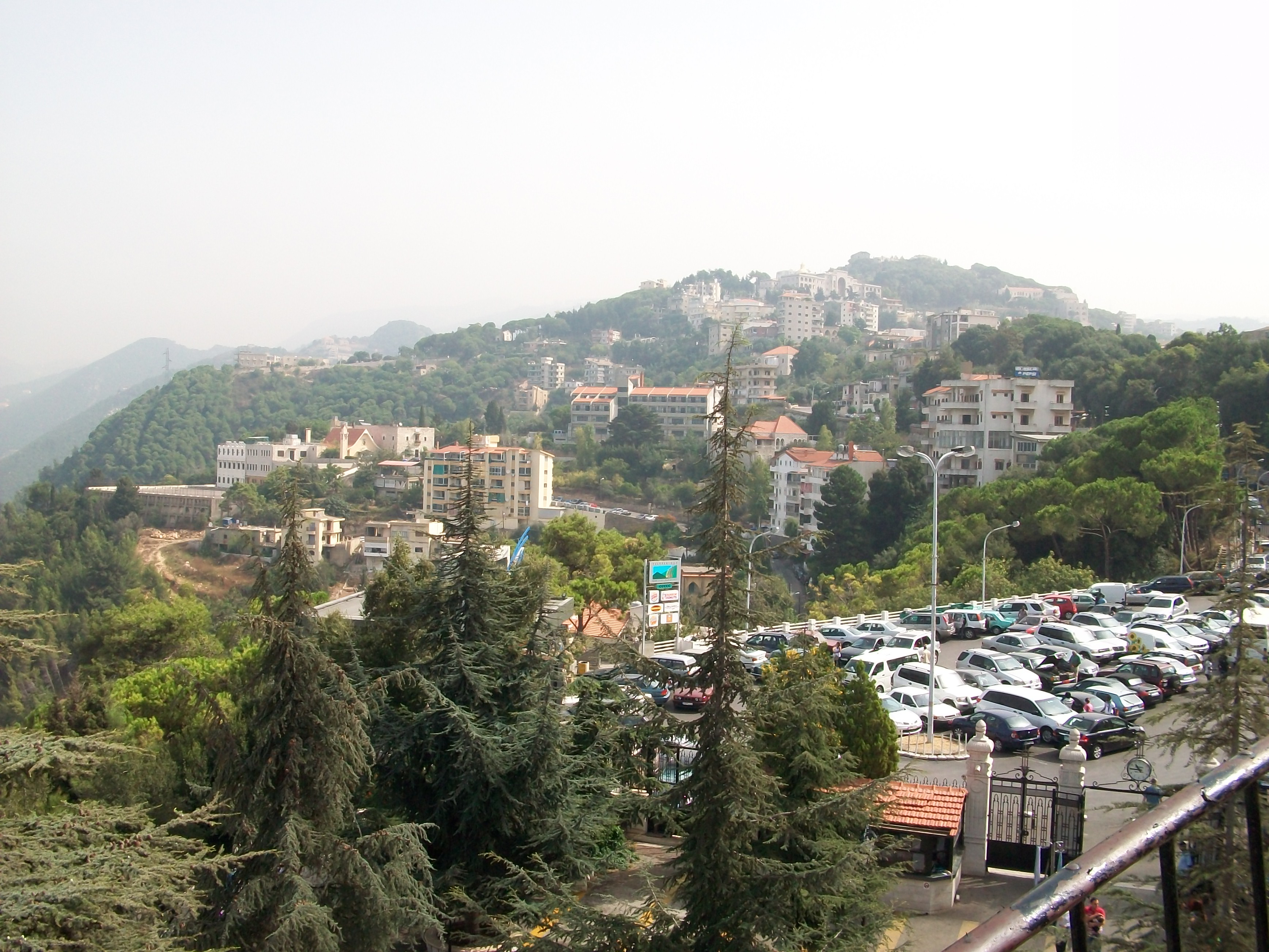 Harissa, Lebanon as seen from the statue of "Our Lady of Lebanon" (20 km distance from the capital city of Beirut).